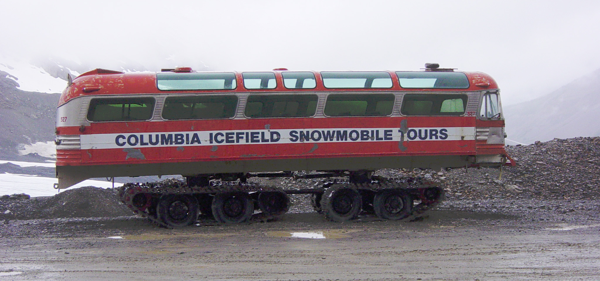 Early snow coach at Athabasca Glacier. With neither suspension, air condtioning, or openable windows this was known as "Shake and Bake".